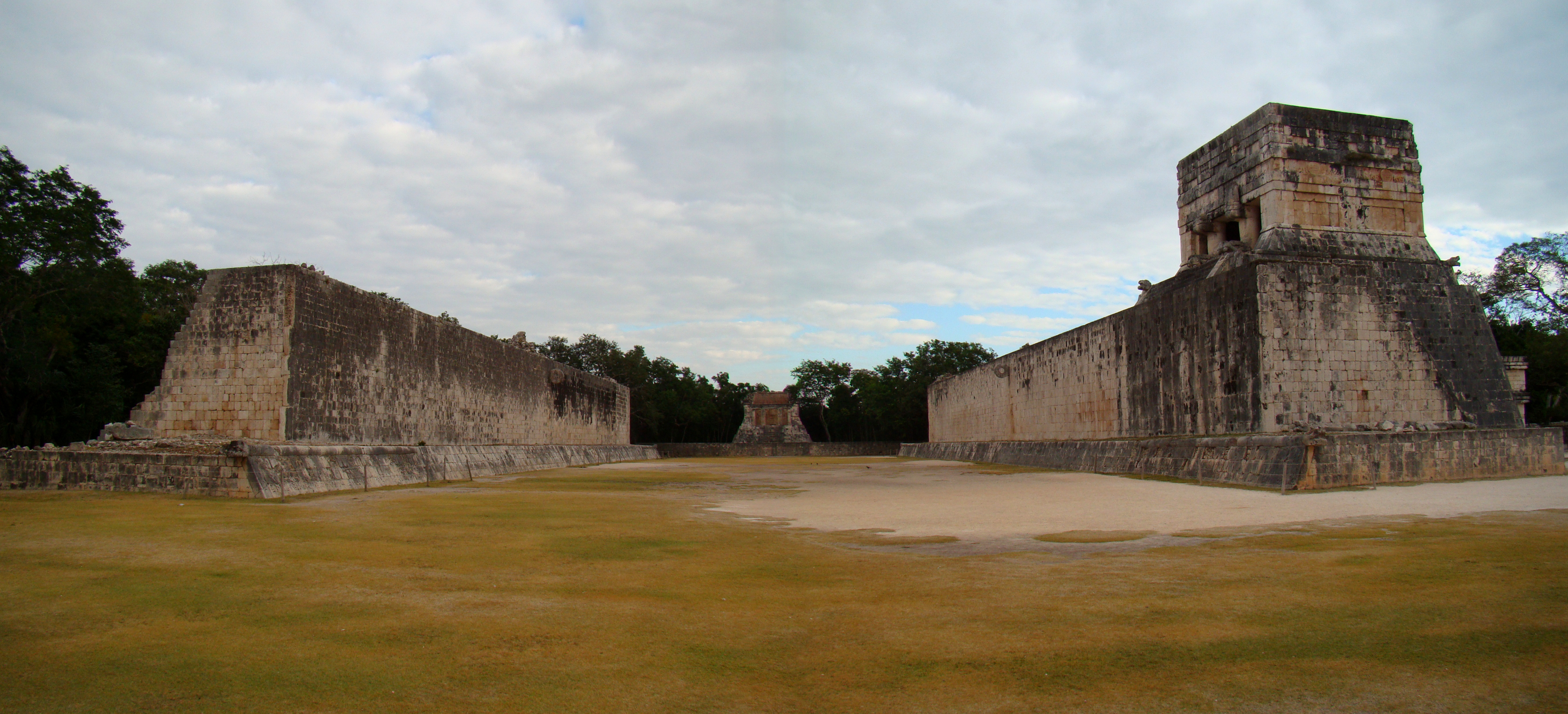 The ball court of the Chichen Itza complex photographed early on Christmas Day 2010.